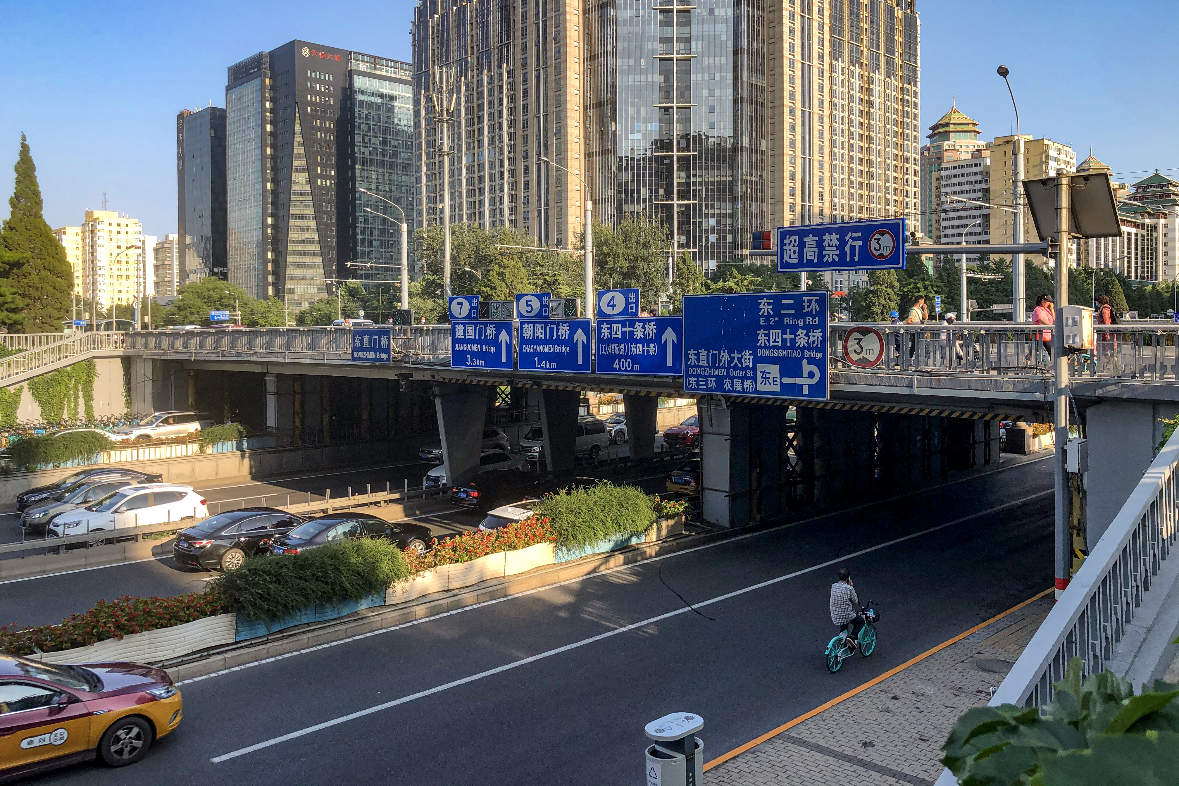 For the 2nd Ring Road, it is a bridge - but it's also a roundabout for side road.